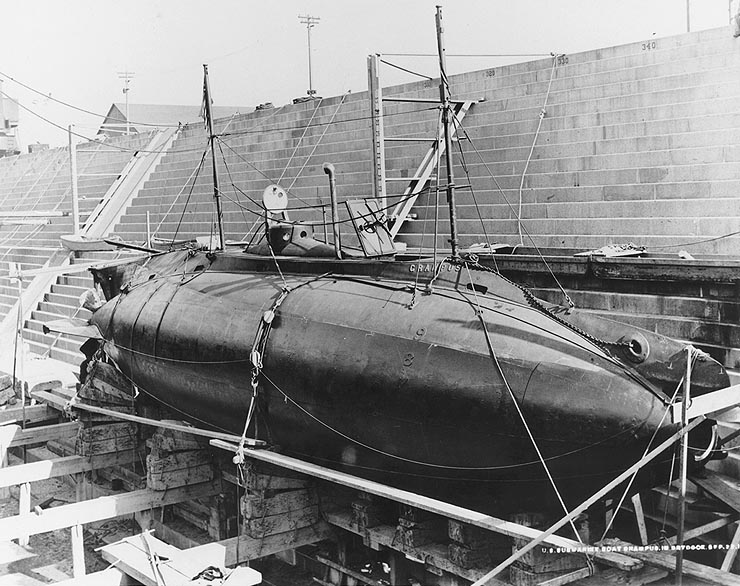 USS Grampus (Submarine # 4) in drydock at the Mare Island Navy Yard, California, 23 September 1906. Original caption: “Photo # NH 65644 USS Grampus in drydock at the Mare Island Navy Yard, California” — removed caption